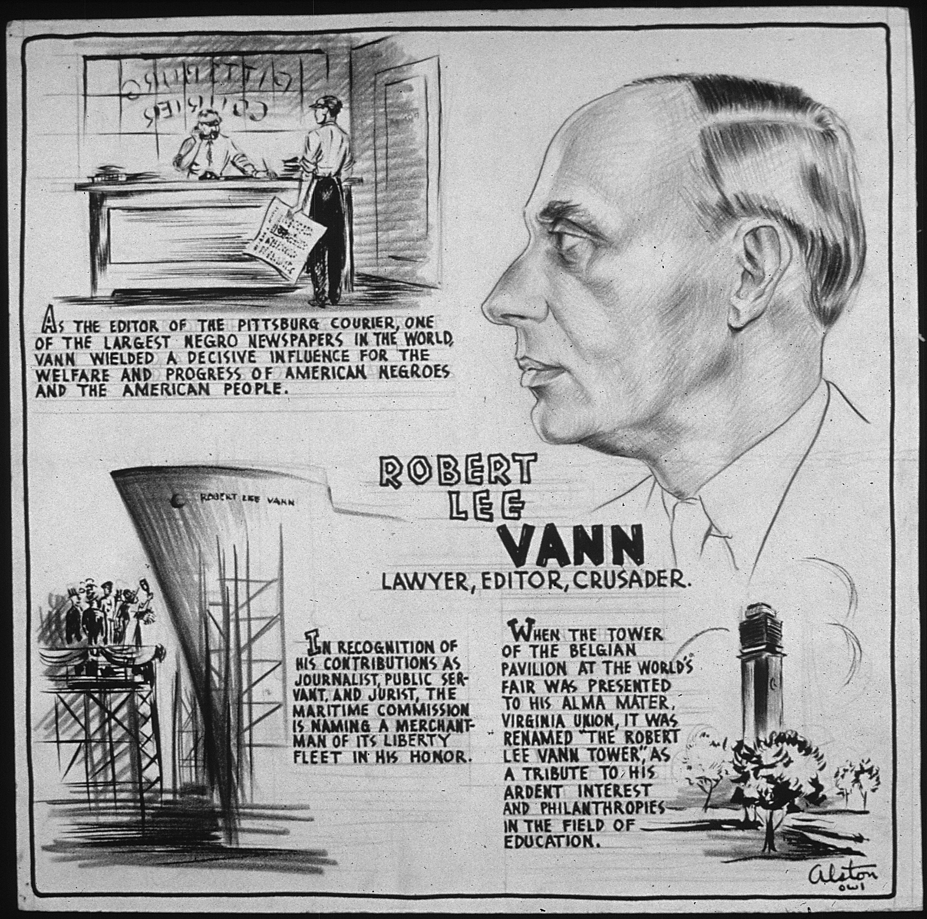 Scope and content: Robert Lee Vann - with biographical paragraphs.